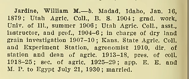 Biographic sketch of William M. Jardine excerpted from page 196 of the July 1, 1933, State Department "Register". To be used in William Marion Jardine Other information Online copy is available at